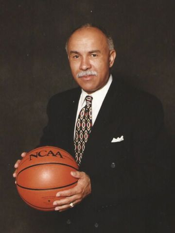 Arthur Perry was a head basketball coach (NCAA Division I) at Delaware State University and American University during the 1990s. He played college basketball at American University and also held a variety of assistant college basketball coaching job. The photograph was taken in 1997.